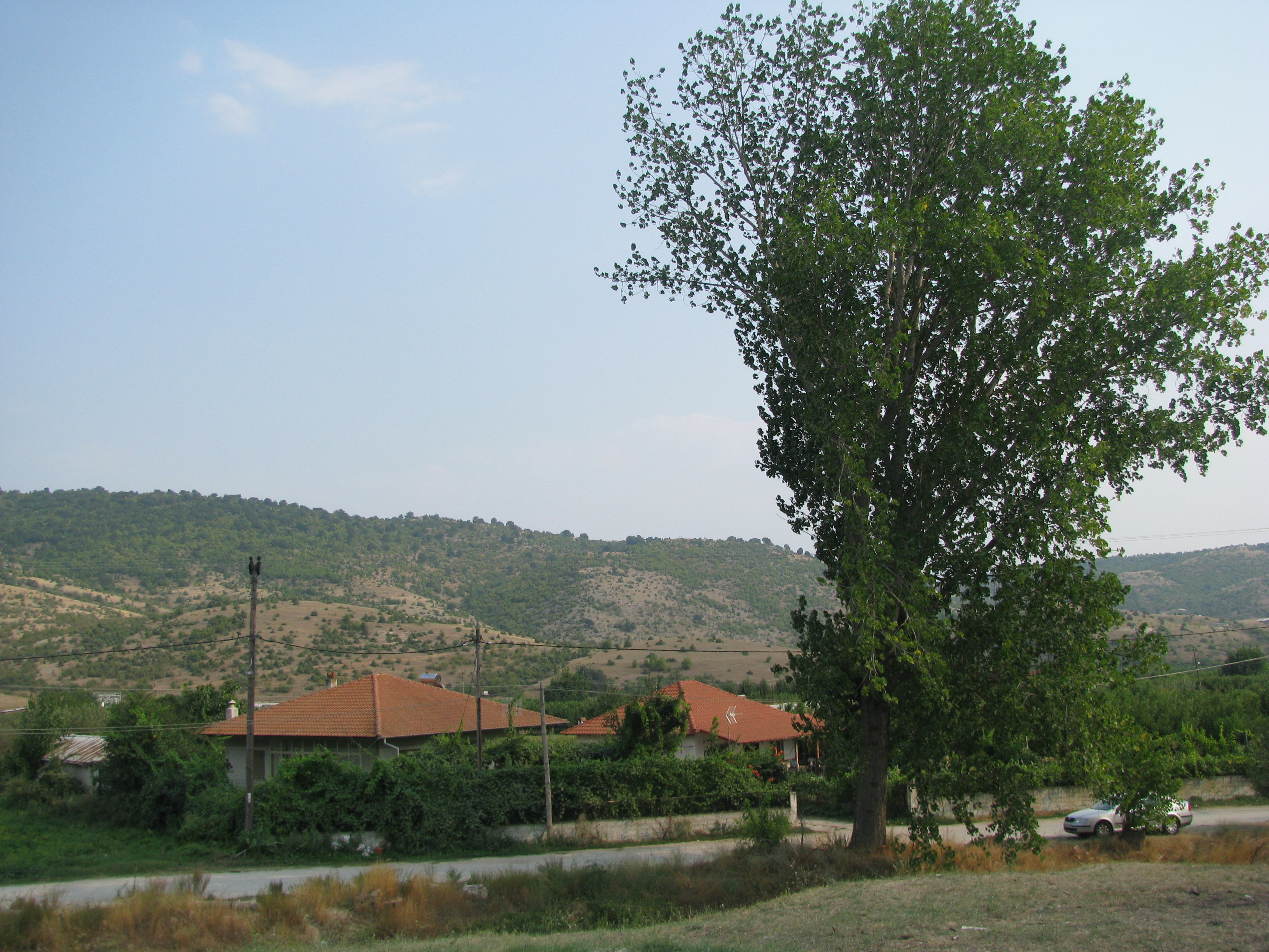 Rusilovo, Ksantogia, Greece